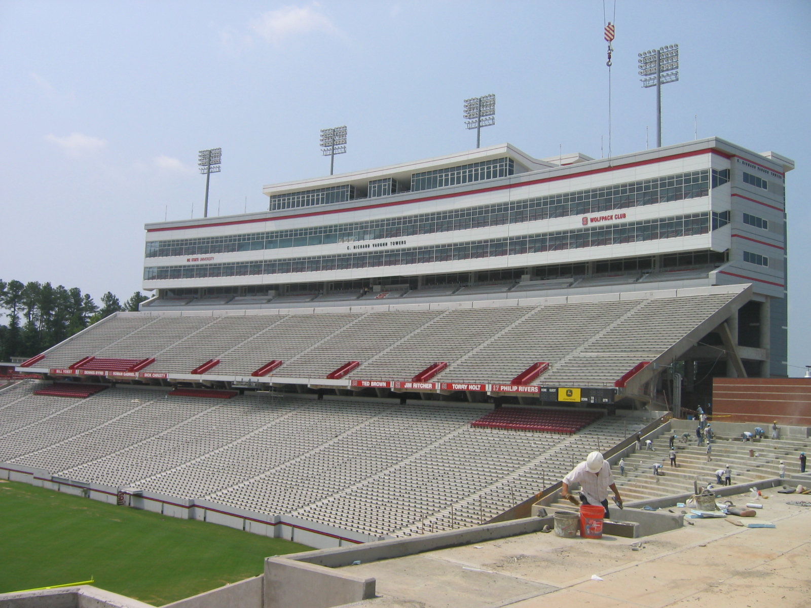 C. Richard Vaugh Towers, luxury boxes at Carter-Finley Stadium. The massive press box at Carter-Finley Stadium.